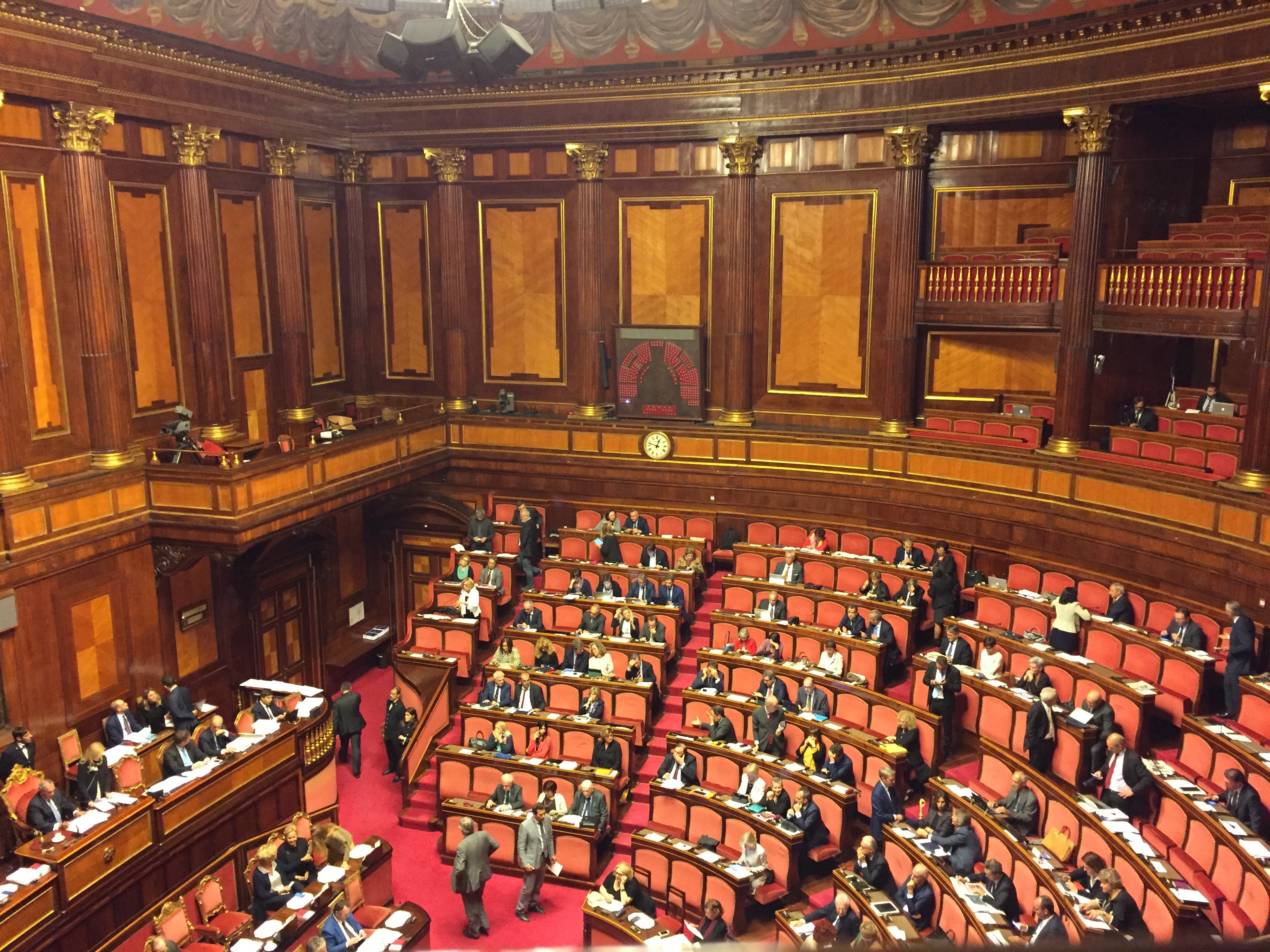 Interior of the Senate of the Republic (Italy)